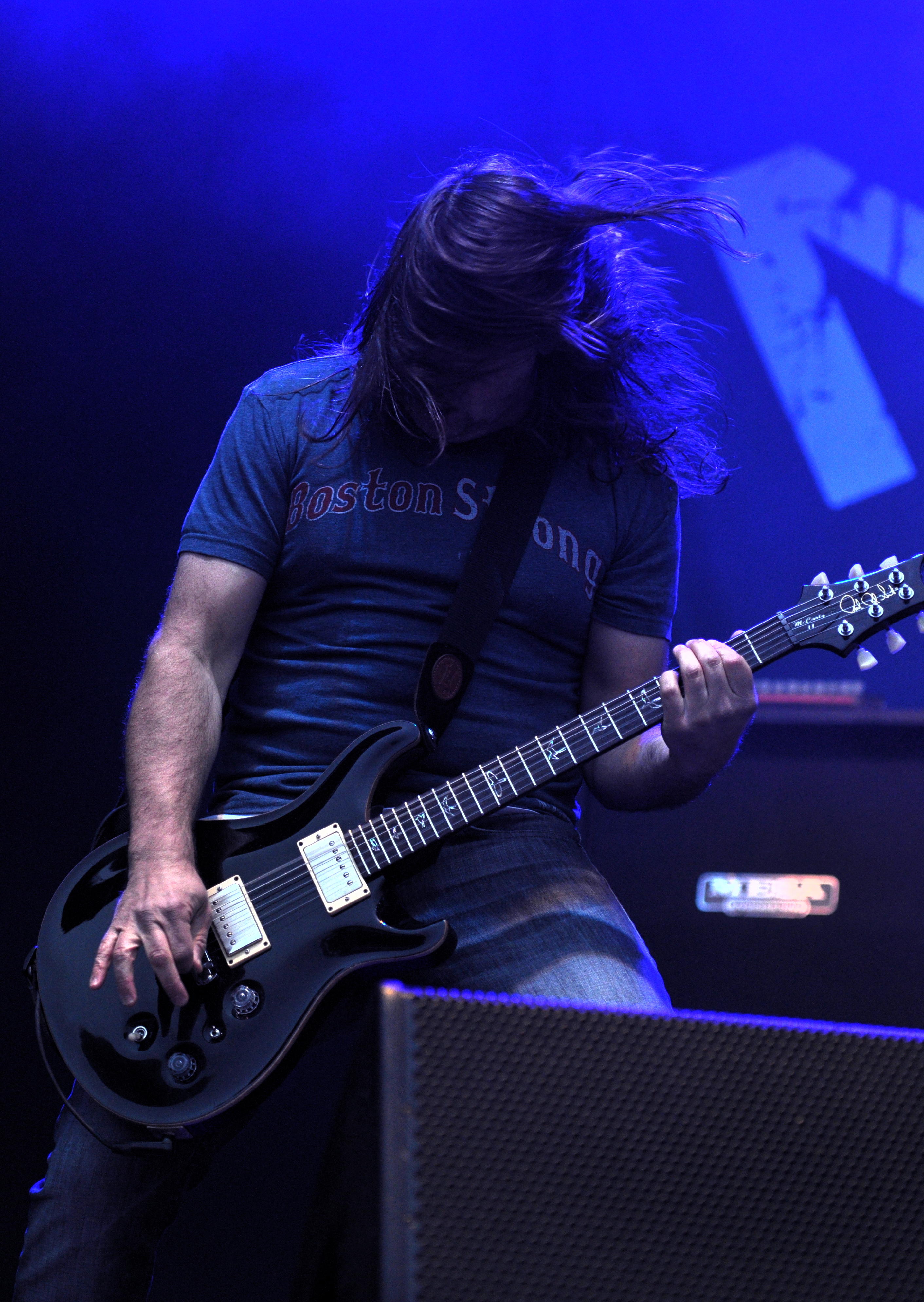 Mike Mushok of Newsted at Rock am Ring 2013